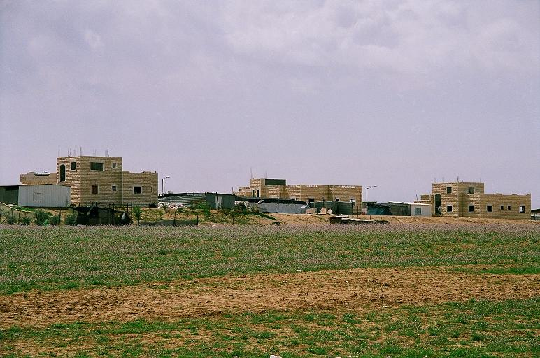 Travin A-Sana